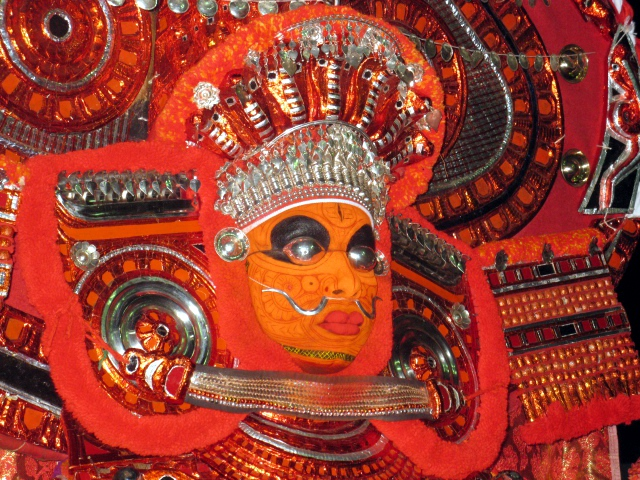 Bhairavan theyyam